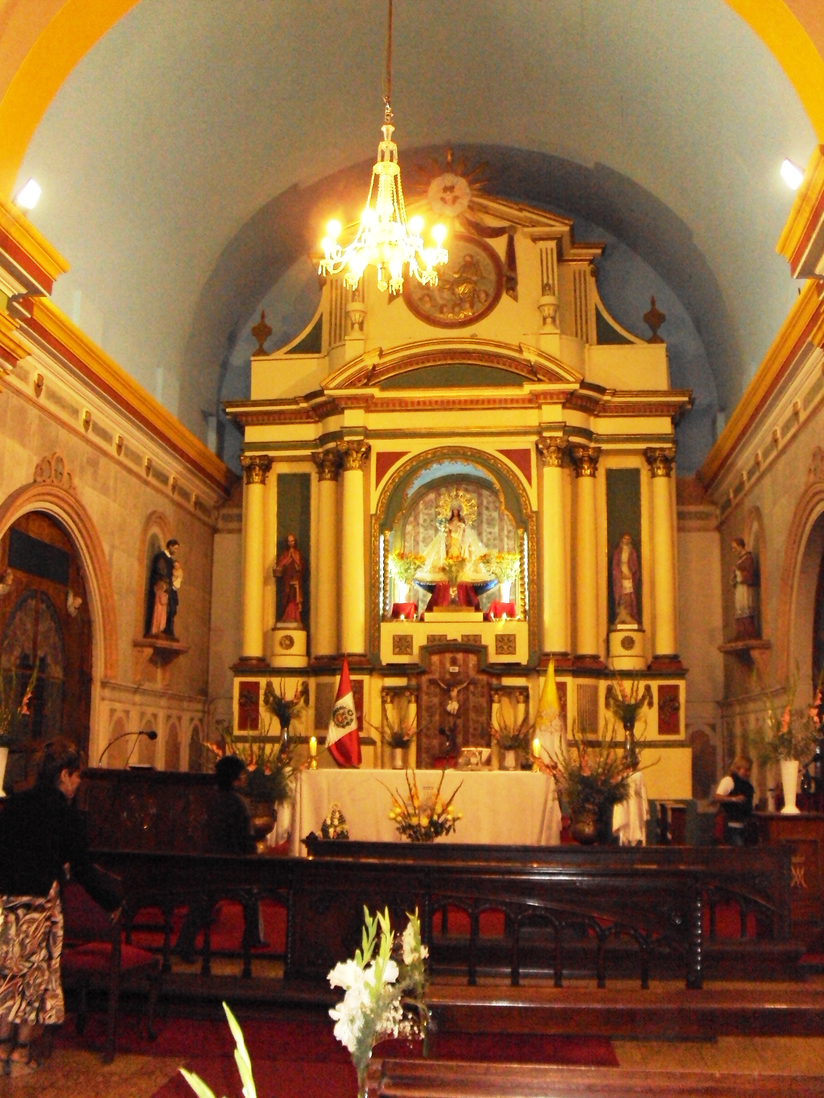 Main Altar in Our Lady of Cocharcas Church, Barrios Altos (Lima-Peru)